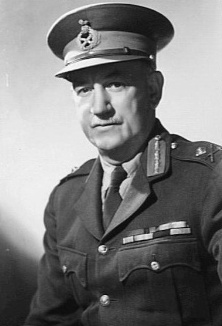 Portrait of VX89075 Major General J. H. Cannan CB CMG DSO VD, Quartermaster-General, Land Headquarters.